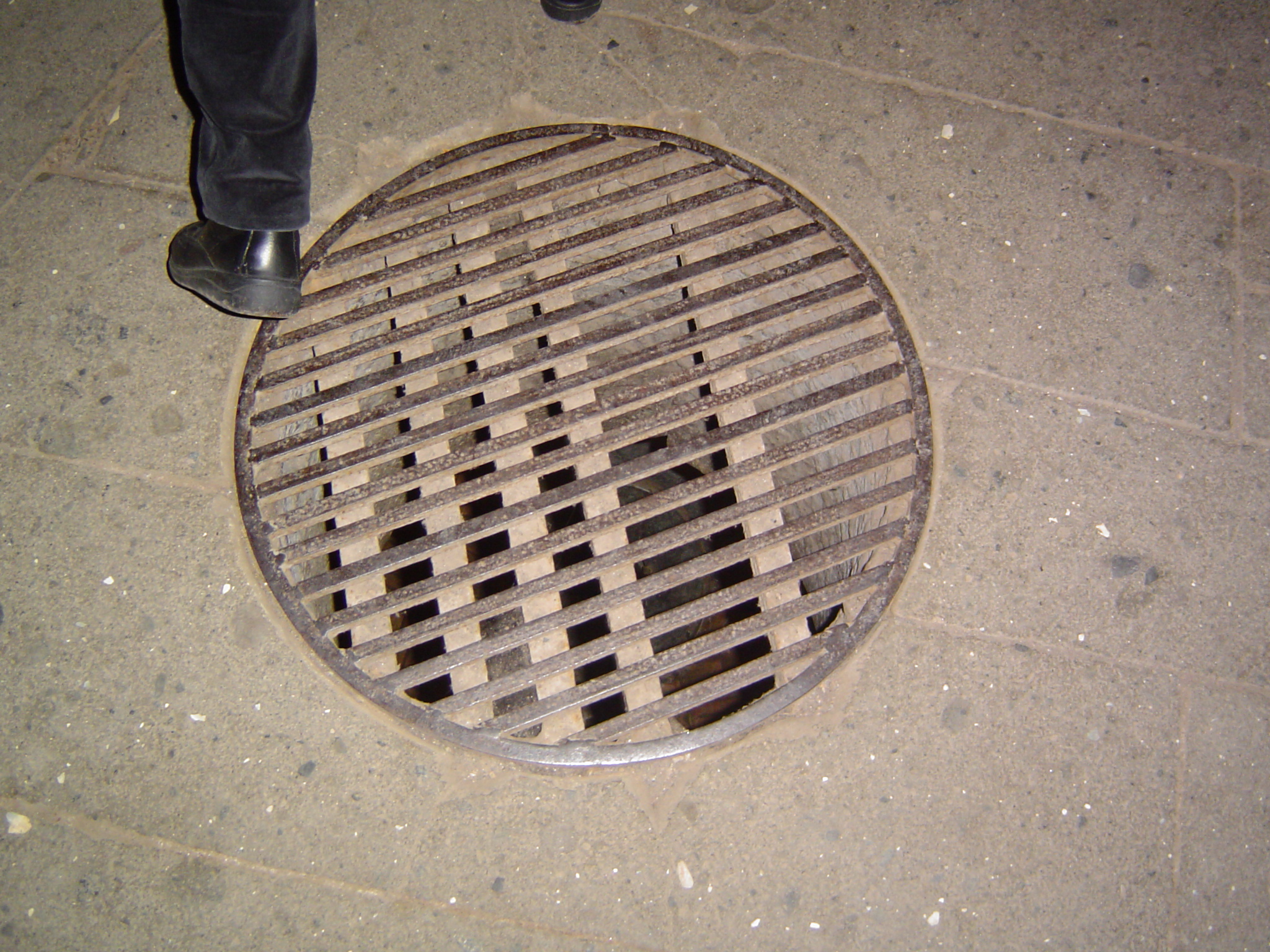 The holge in the Mamertine Prison between the Carcer and the Tullianum, Rome Italy Made by J. van Rooden, the Netherlands 30-12-2005